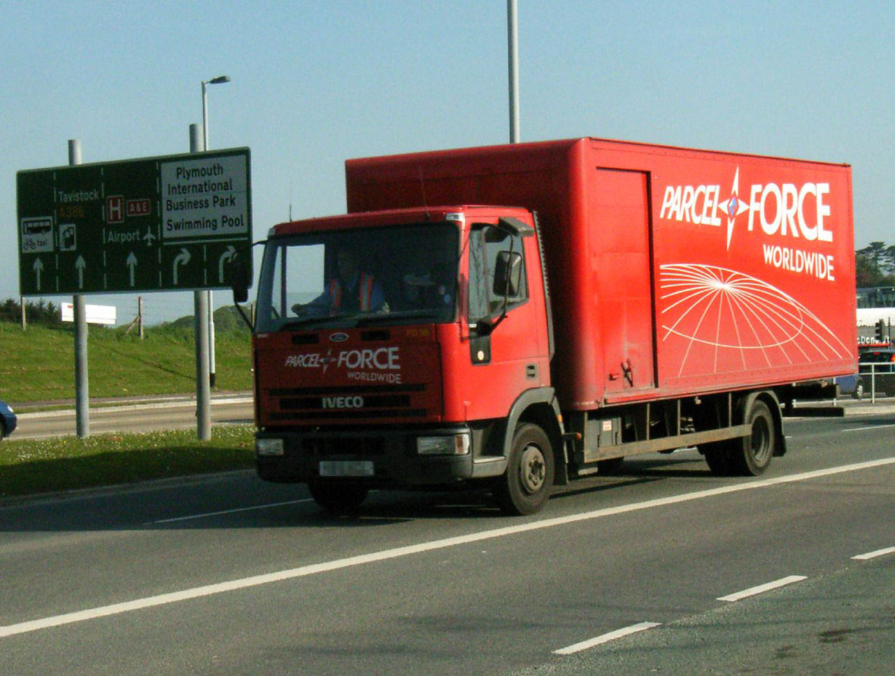 Ford Iveco Eurocargo of Royal Mail subsidiary Parcelforce/Parcel Force.